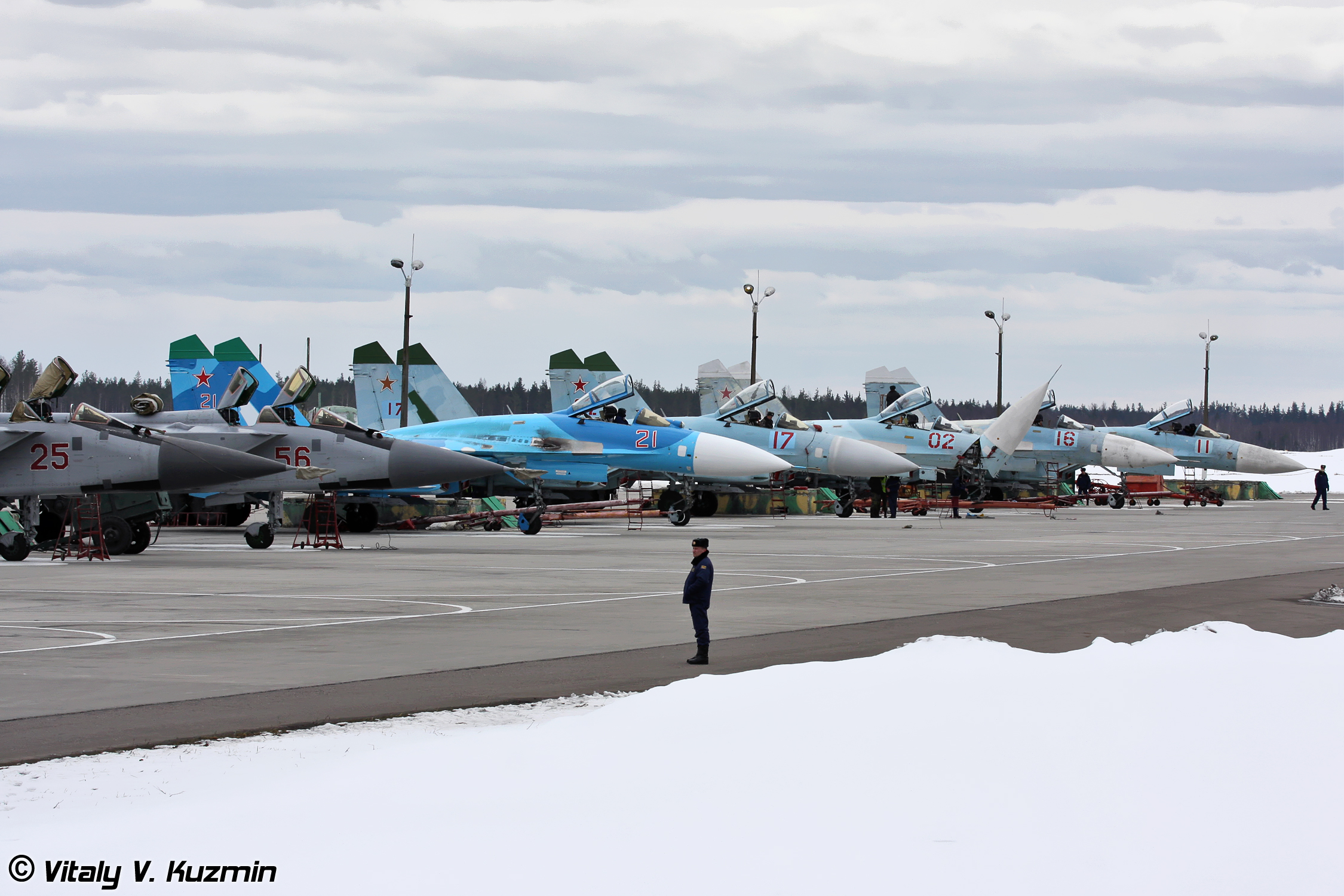 790th Fighter Order of Kutuzov 3rd class Aviation Regiment, Khotilovo airbase